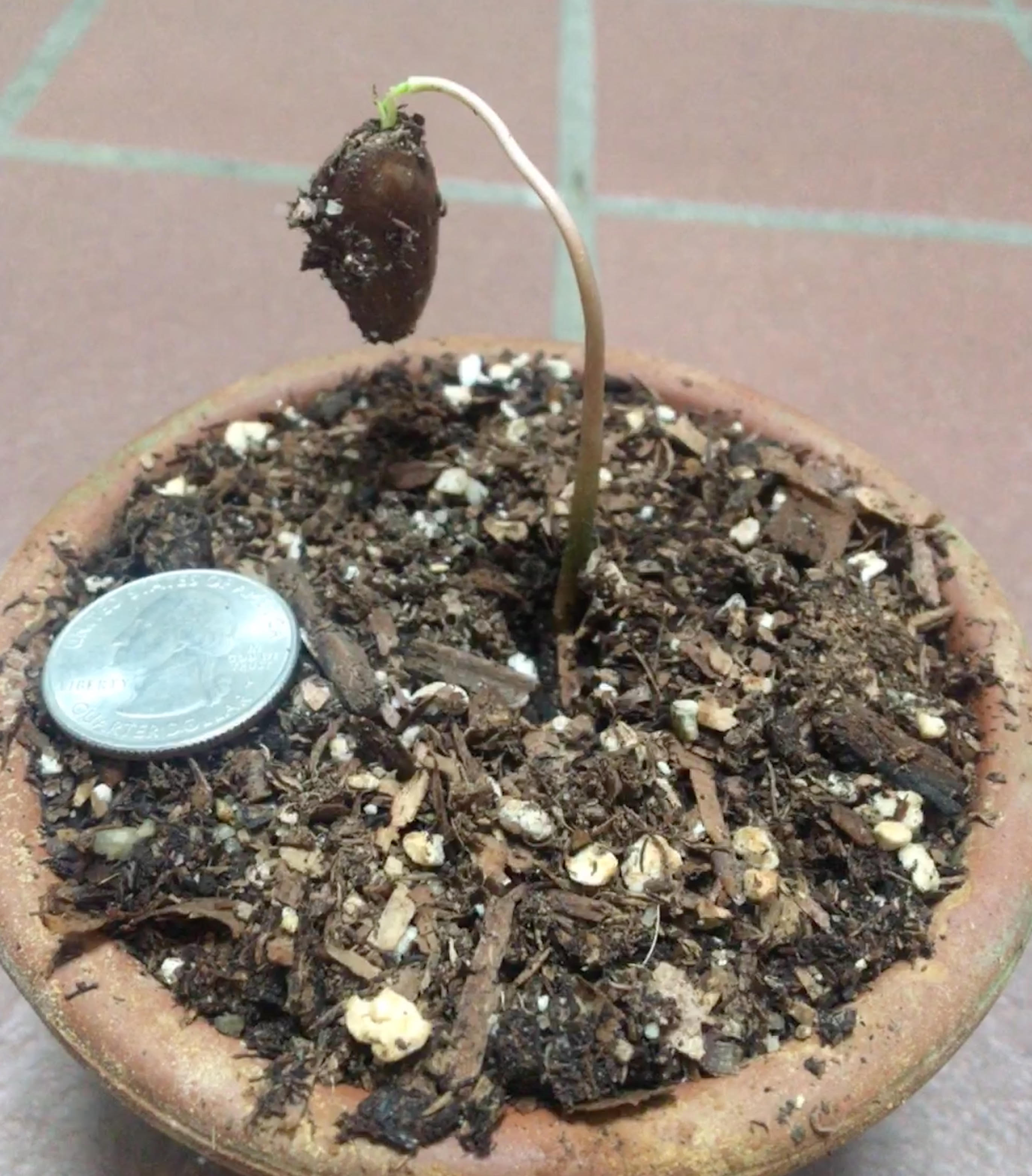 A young Asimina triloba plant growing in a pot with US quarter for size. Note the large seed being supported by the stem.